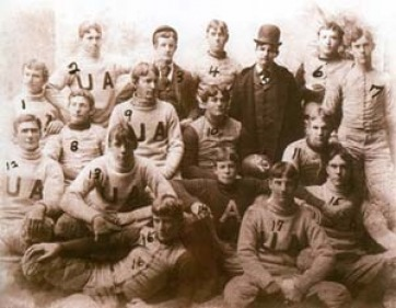 Team photo of the 1892 University of Alabama football team